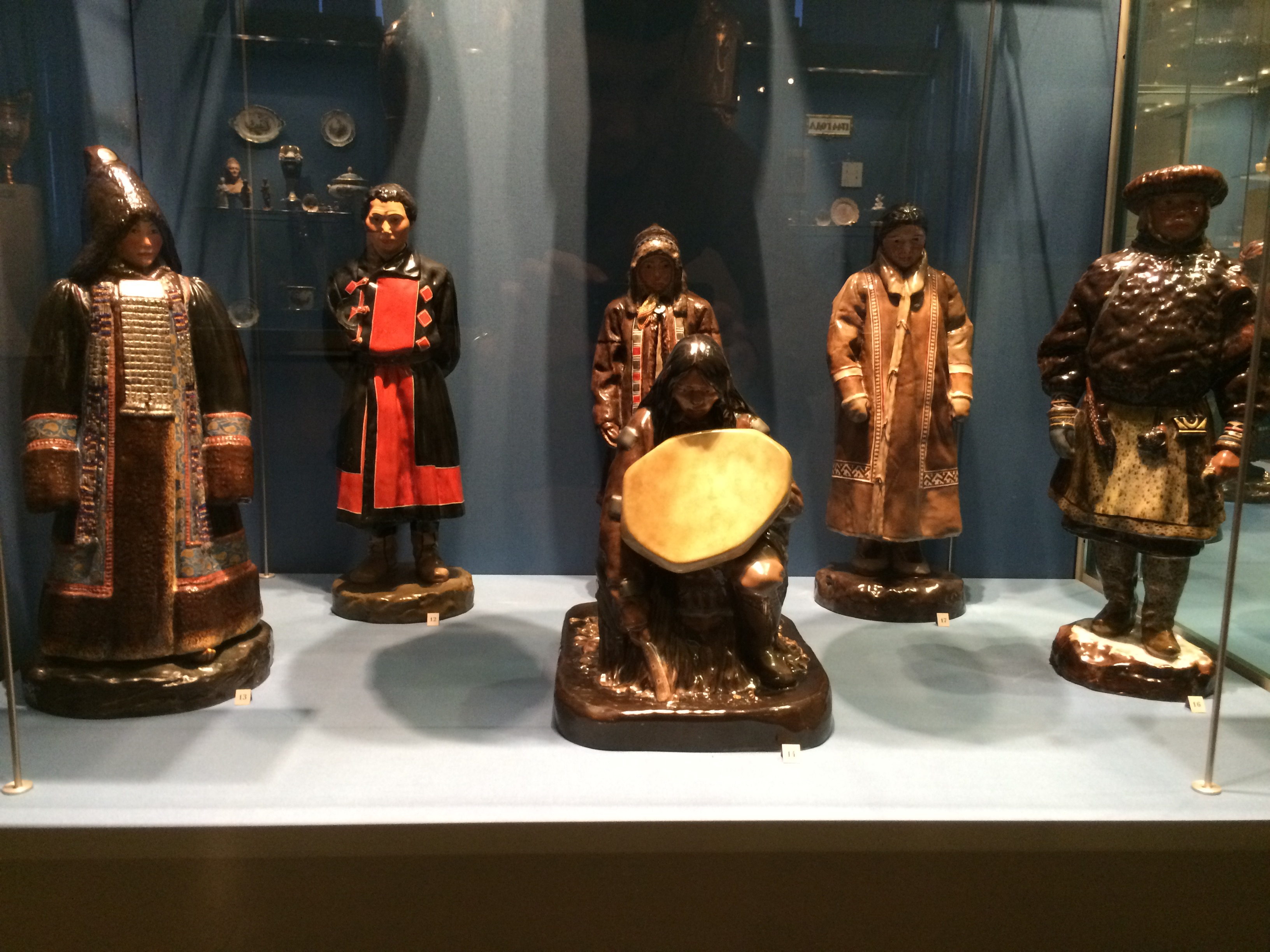 St.Petersburg. The Museum of the Imperial Porcelain Factory. Sculptures from the series "Peoples of Russia." "Great Russian Ryazan Governorate" (center). Models by P.P. Kamensky (1858-1922). Imperial Porcelain Factory, Russia. 1907-1917 gg. Porcelain, polychrome overglaze painting, gilding, silvering, platinum lustre, tooled.